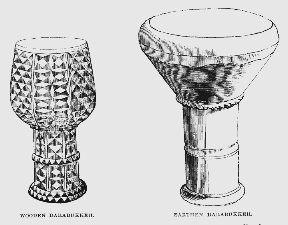 Wooden Darabukkeh, Earthen Darabukkeh